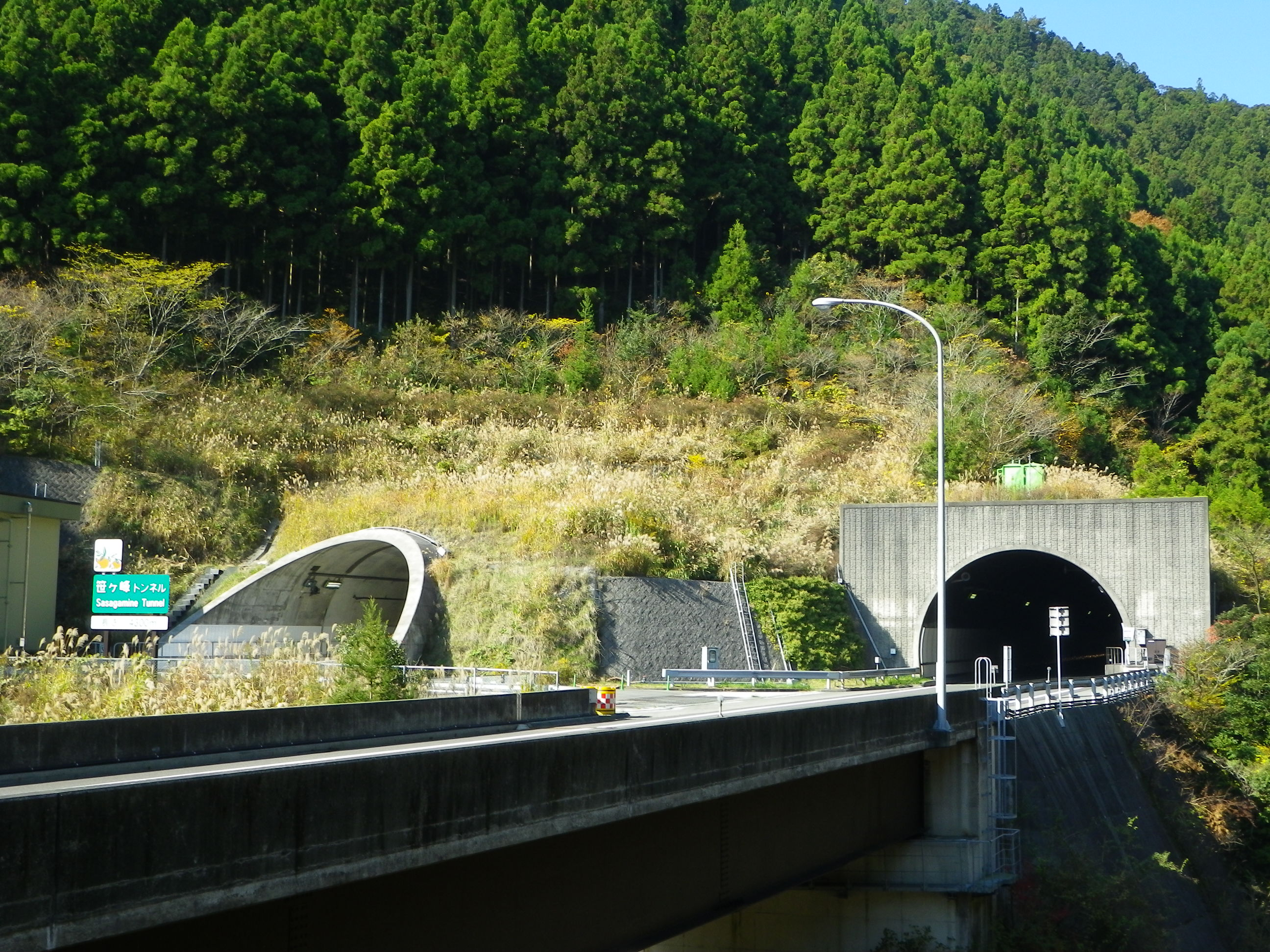 Sasagamine tunnel